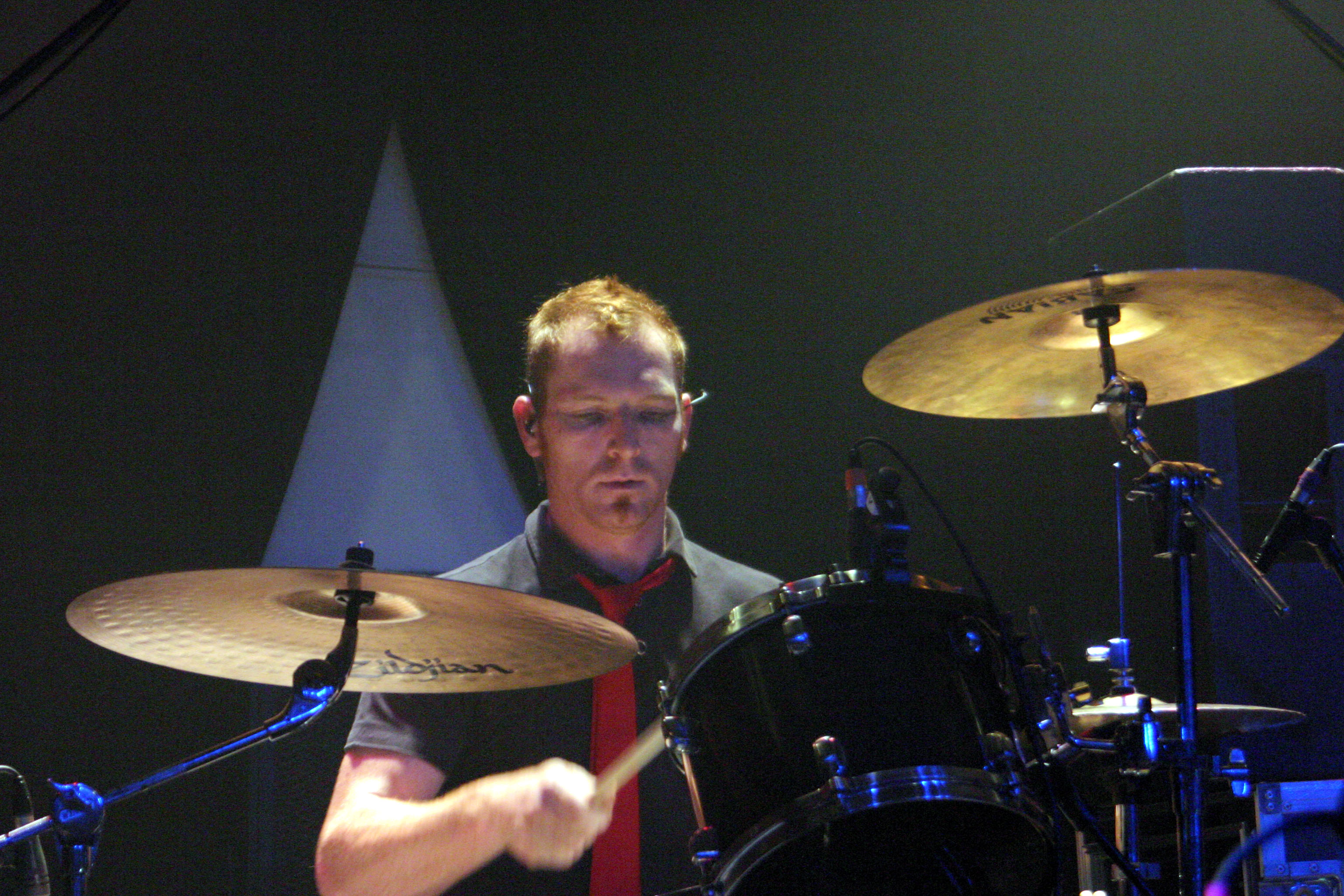 Neil Pauw of the Parlotones at a concert in Cologne (Germany), 2010-10-26